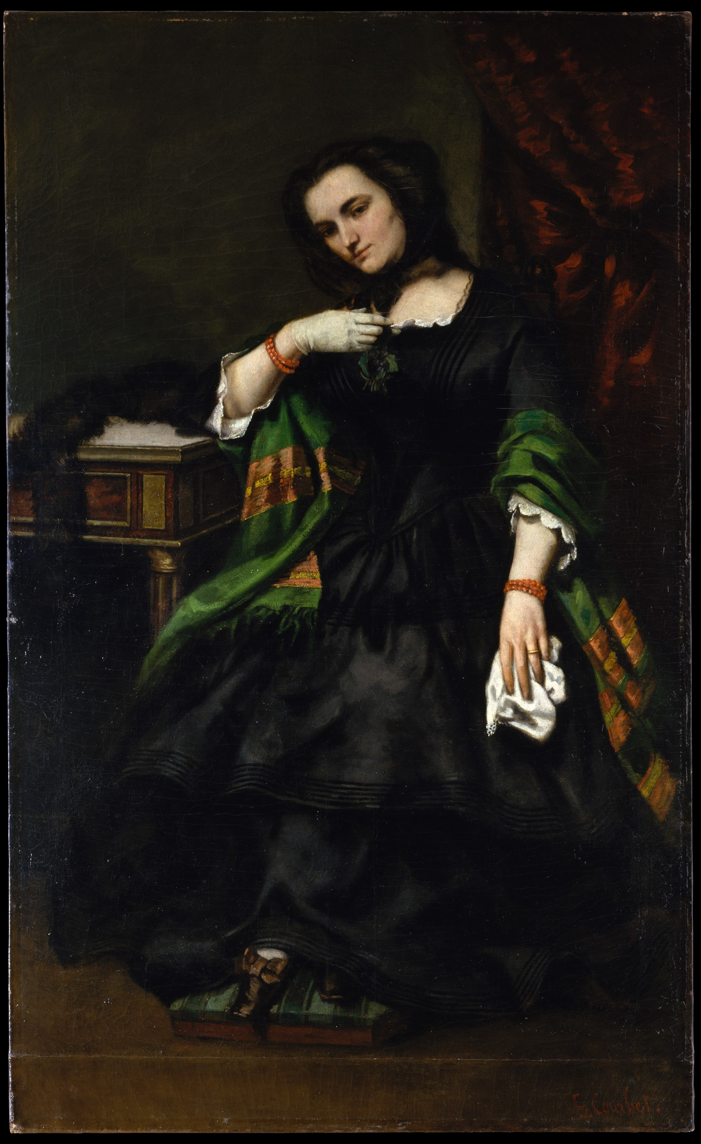 Portrait of a young lady sitting at a table